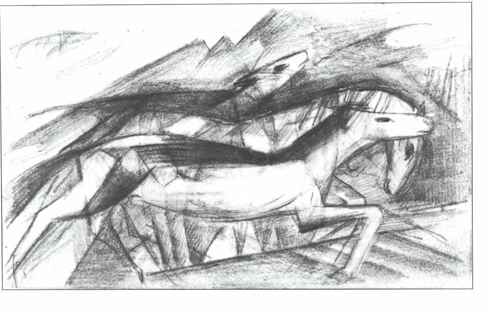 Sketchbook from World war I